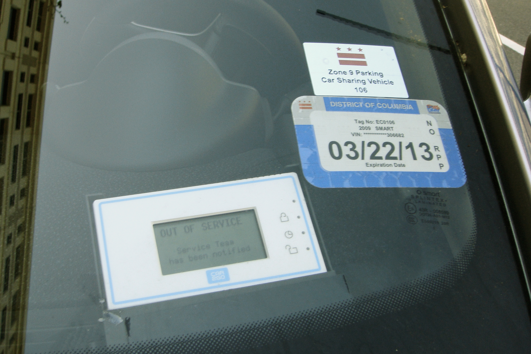 Details of the windshield showing the location of the Car2Go member car reader and Washington, D.C. parking permit. Car2Go Smart fortwo at downtown D.C.